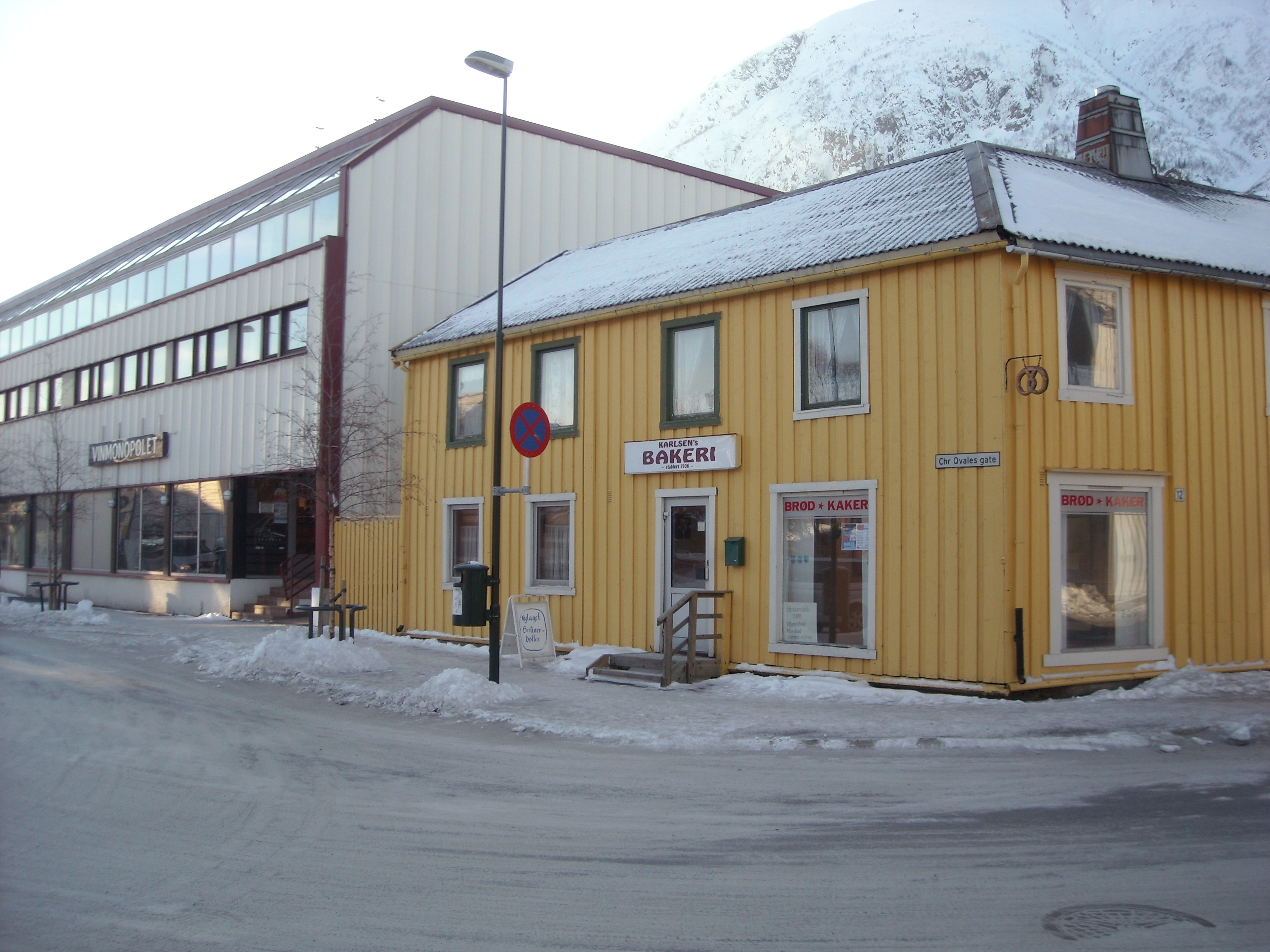 Karlsens Bakeri and the Angermo Building, Mosjøen in Norway.